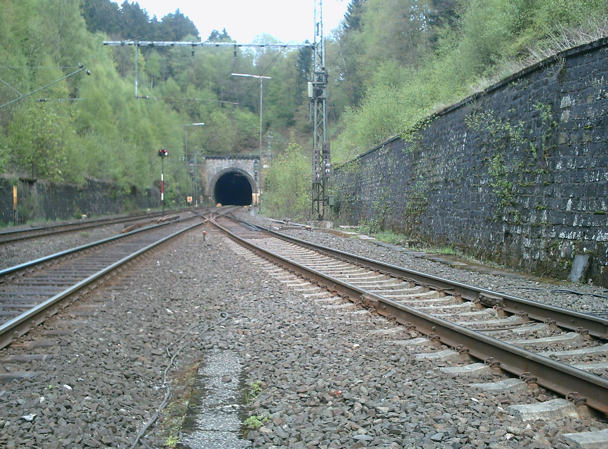 Rehbergtunnel in Altenbeken, Germany, Westportal